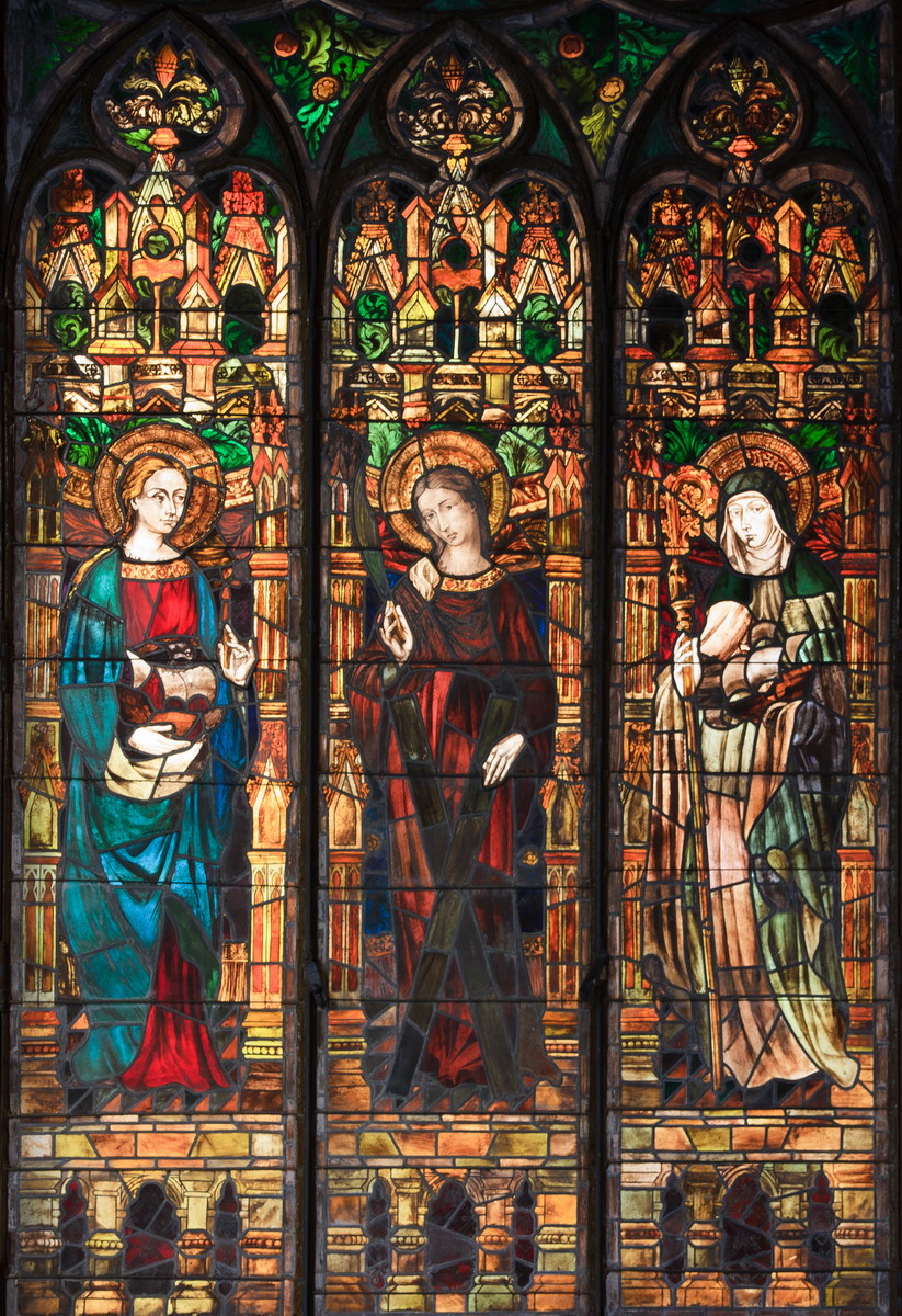 Barcelona. City Hall. Stained glass window, by Rigalt, at the Gothic gallery. At the center, Saint Eulàlia. At the left, Saint Madrona. At the right, Saint Maria de Cervelló